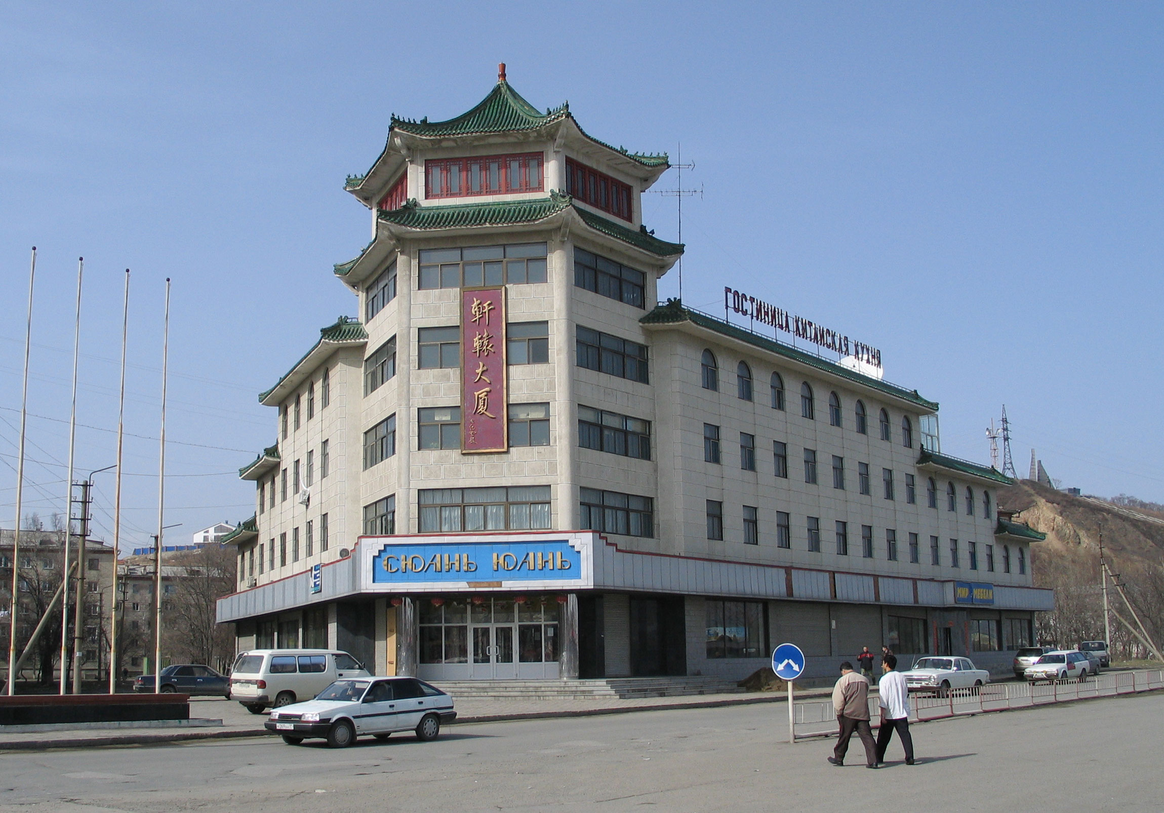 Russia, Primorsky Krai, Nakhodka. Nakhodka's Hotel Suan Yuan, Nakhodka.